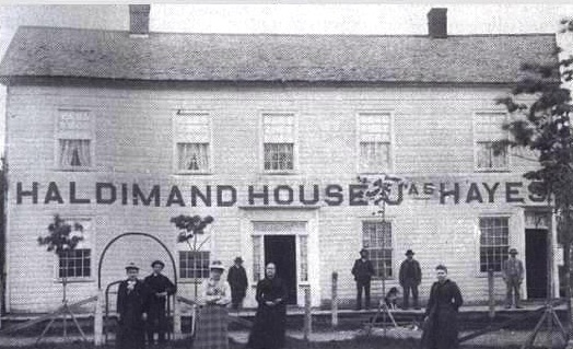 Haldimand House in the 1890s when owned by James Hayes